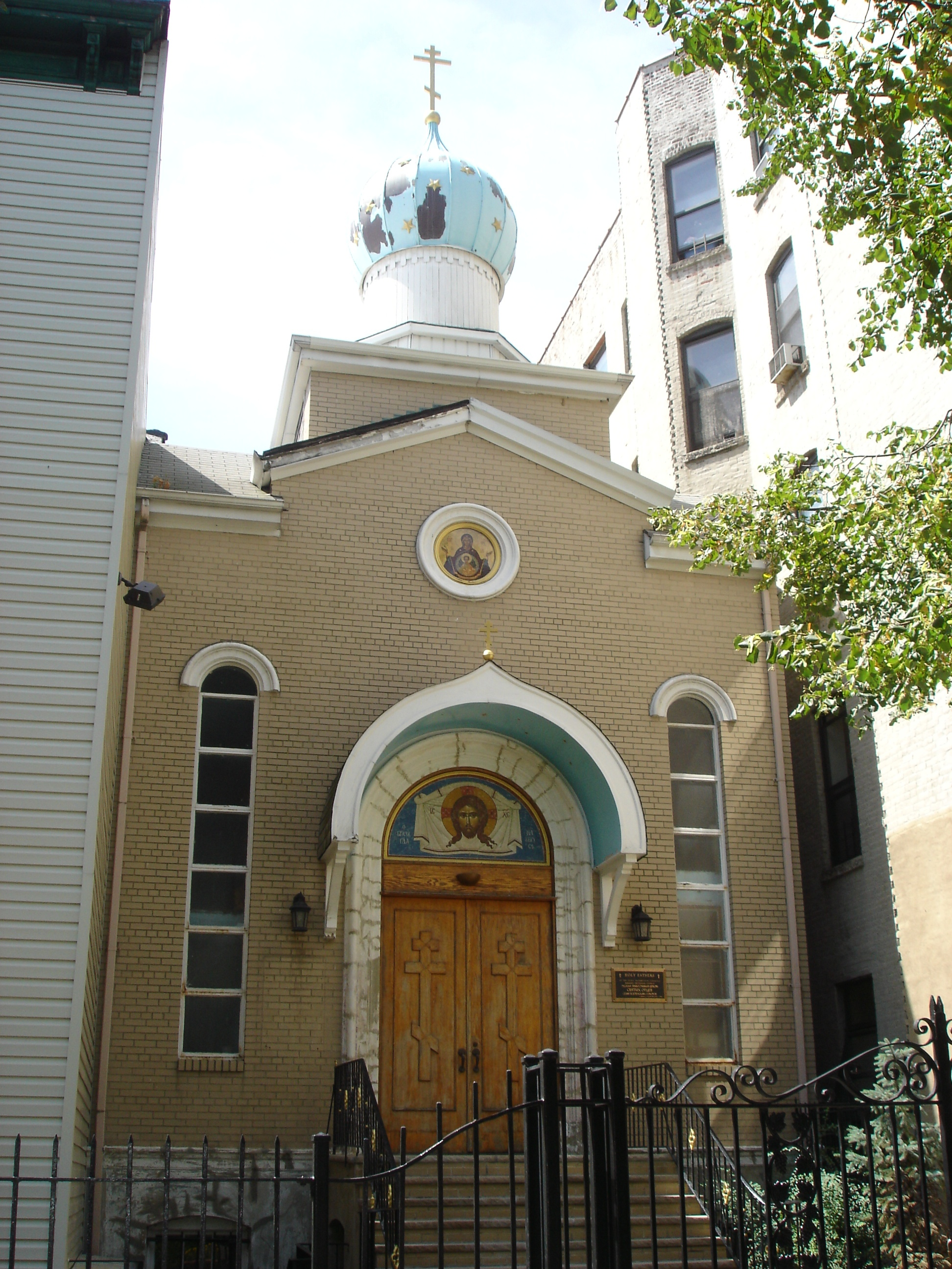 Holy Fathers Russian Orthodox Church